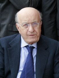 Image of Ciriaco de Mita and his colleagues